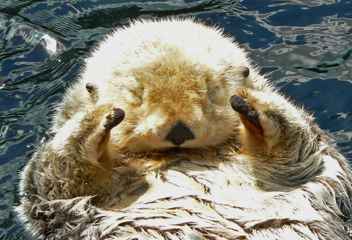 Photo of sleeping Enhydra lutris (sea otter) at the Vancouver Aquarium